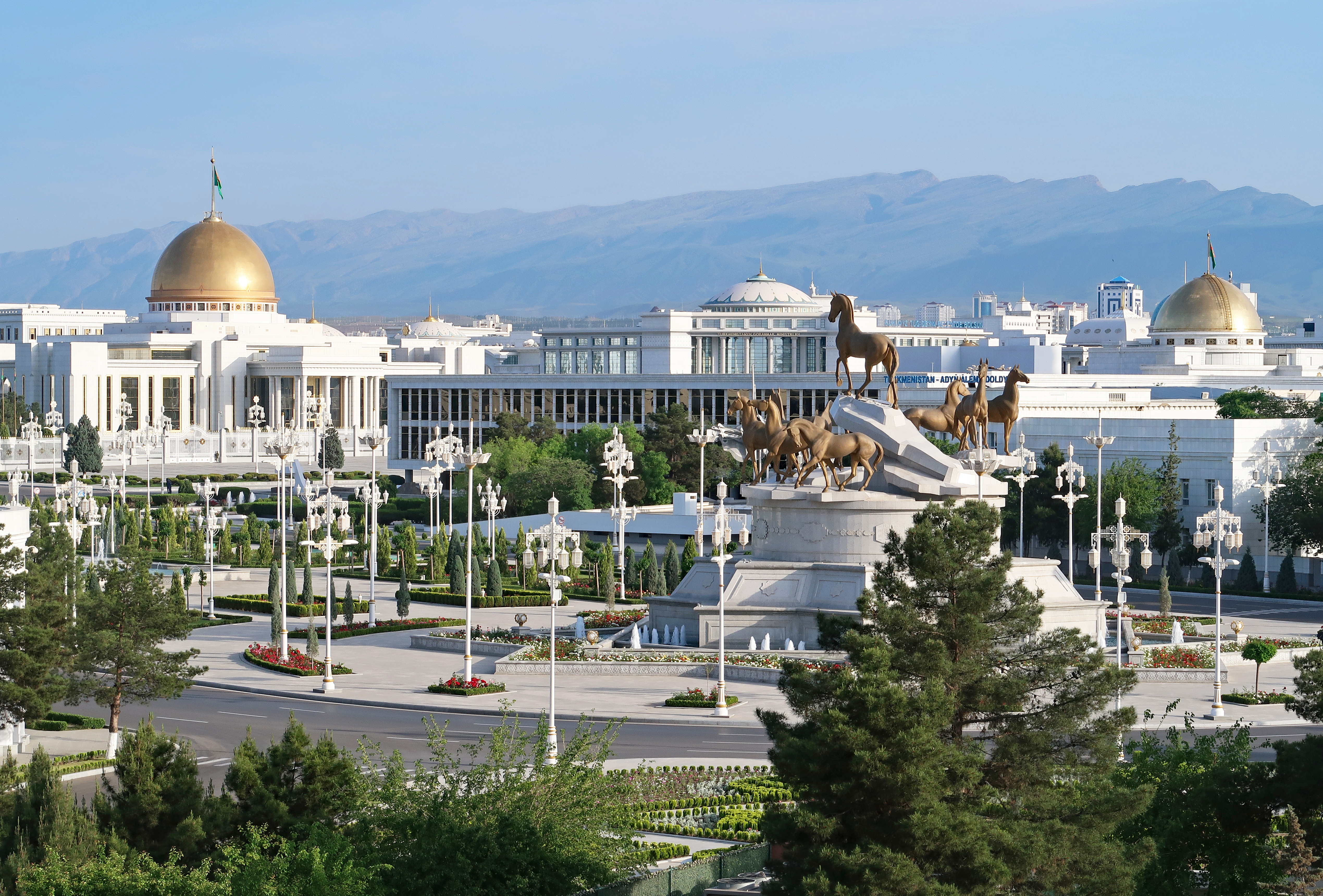 View of Ashgabat